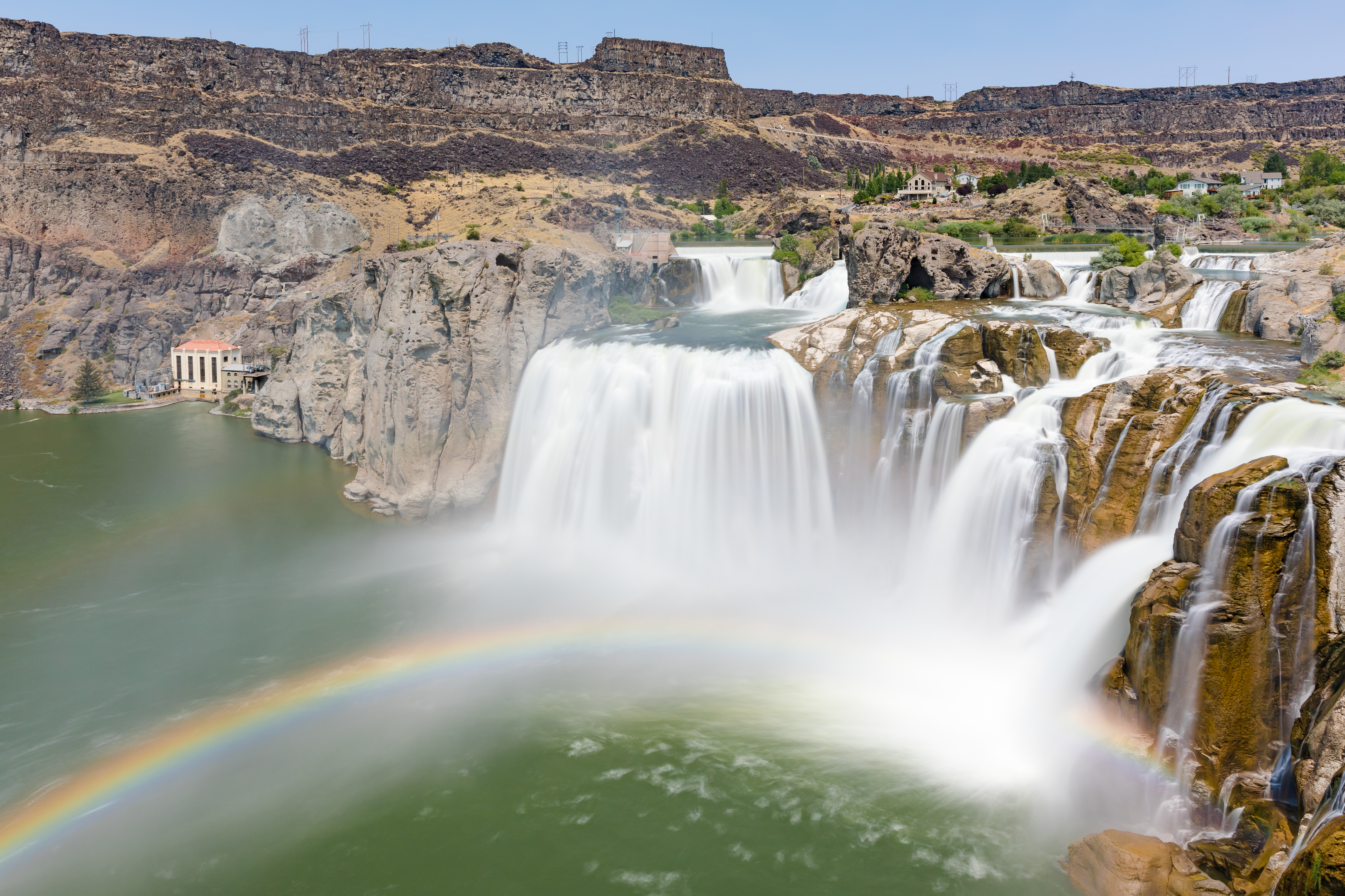 Shoshone Falls near Twin Falls, Idaho, also sometimes called “Niagara of the West.”